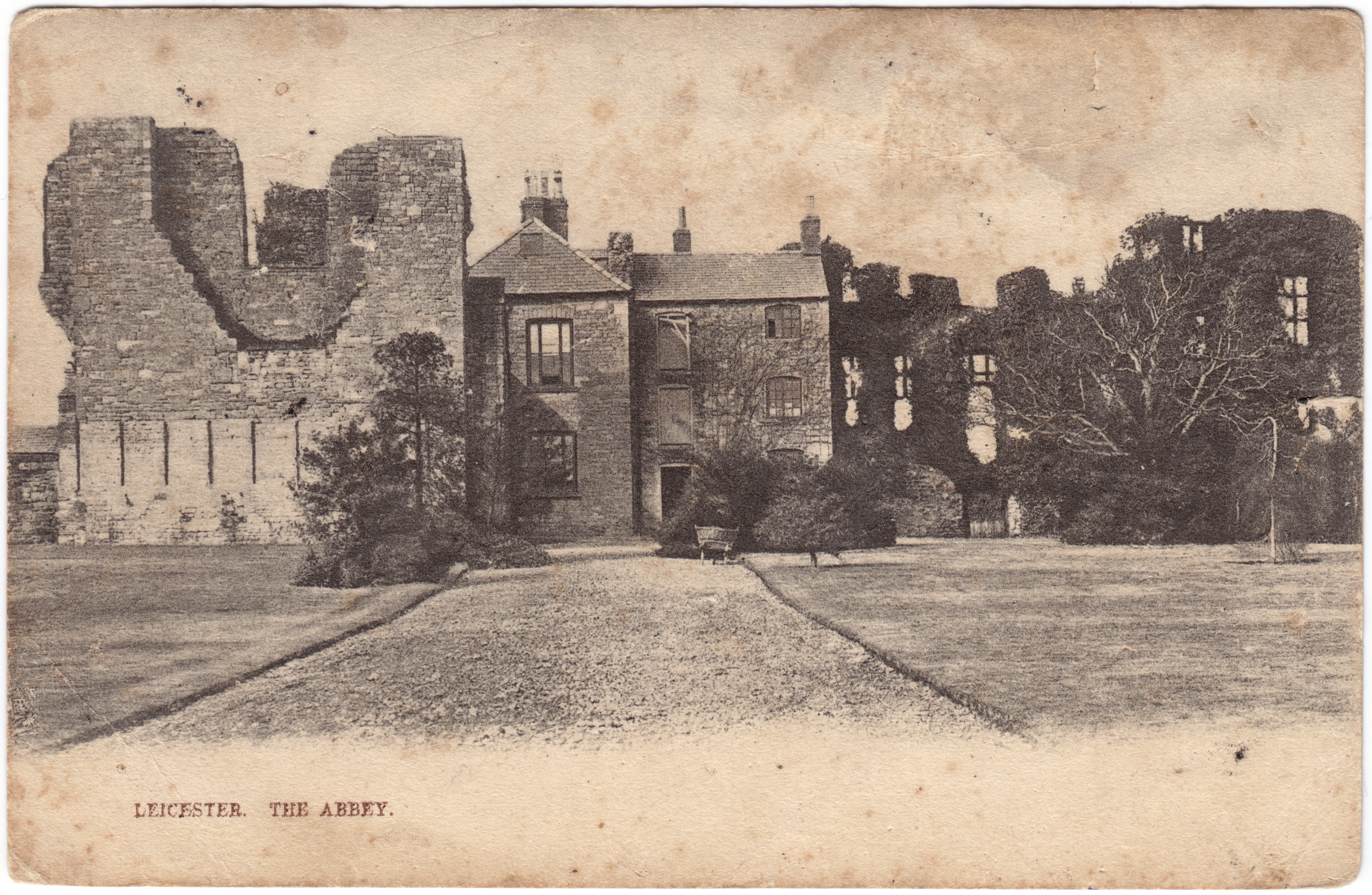 The ruins of Cavendish House and Leicester Abbey. Published in (or before) 1906, photographer unknown: therefore in public domain in UK copyright law.